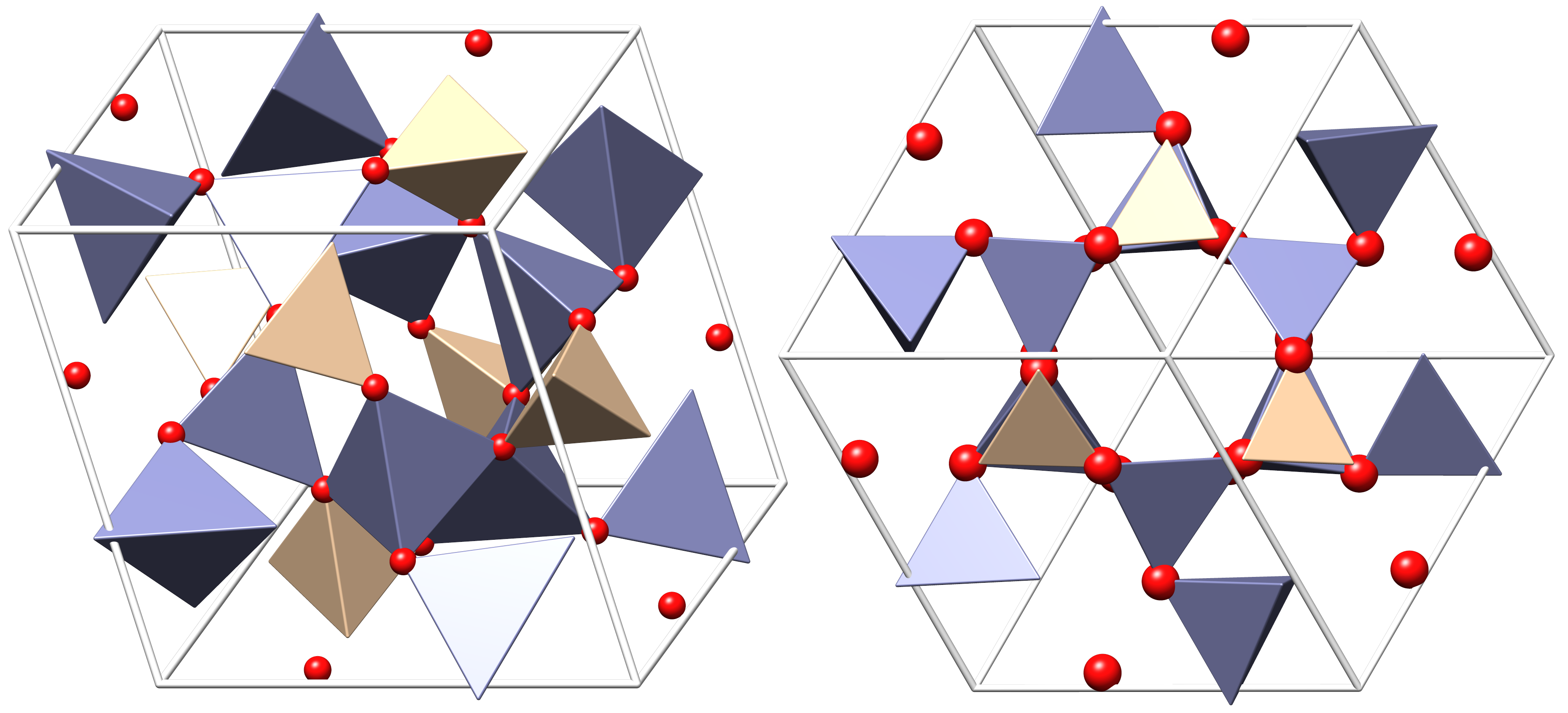 Crystal structure of willemite - Zn2SiO4. Hang C, Simonov M A, Belov N V Colour code: Zink, Zn: blue-gray Silicon, Si: sand Oxygen, O: red Cell: white